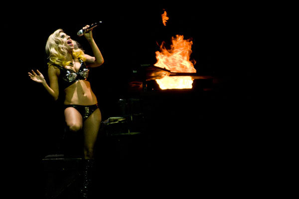 Lady Gaga performing at the Monster Ball in Vancouver, British Columbia Canada